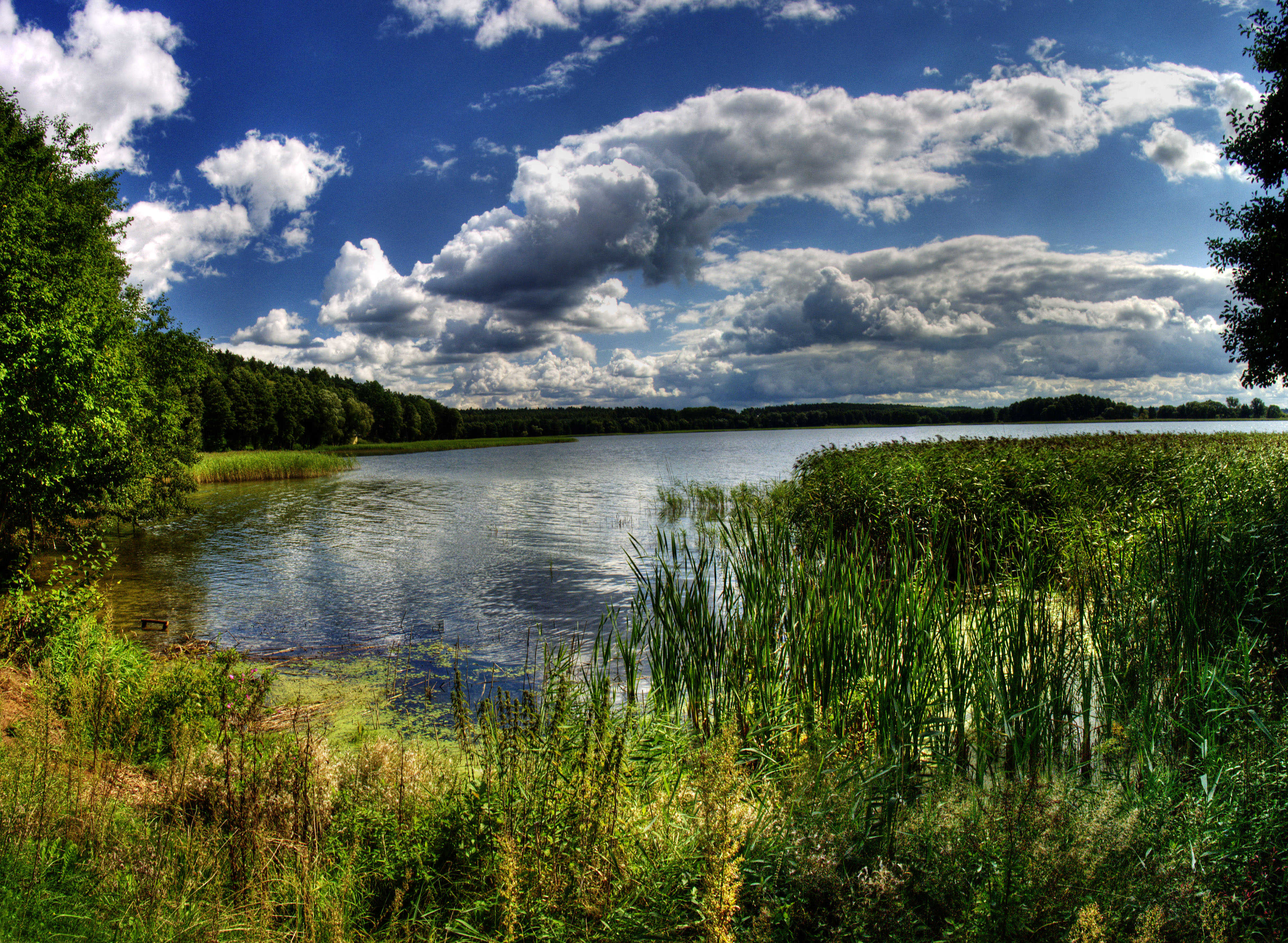 Gołdapiwo Lake, Poland